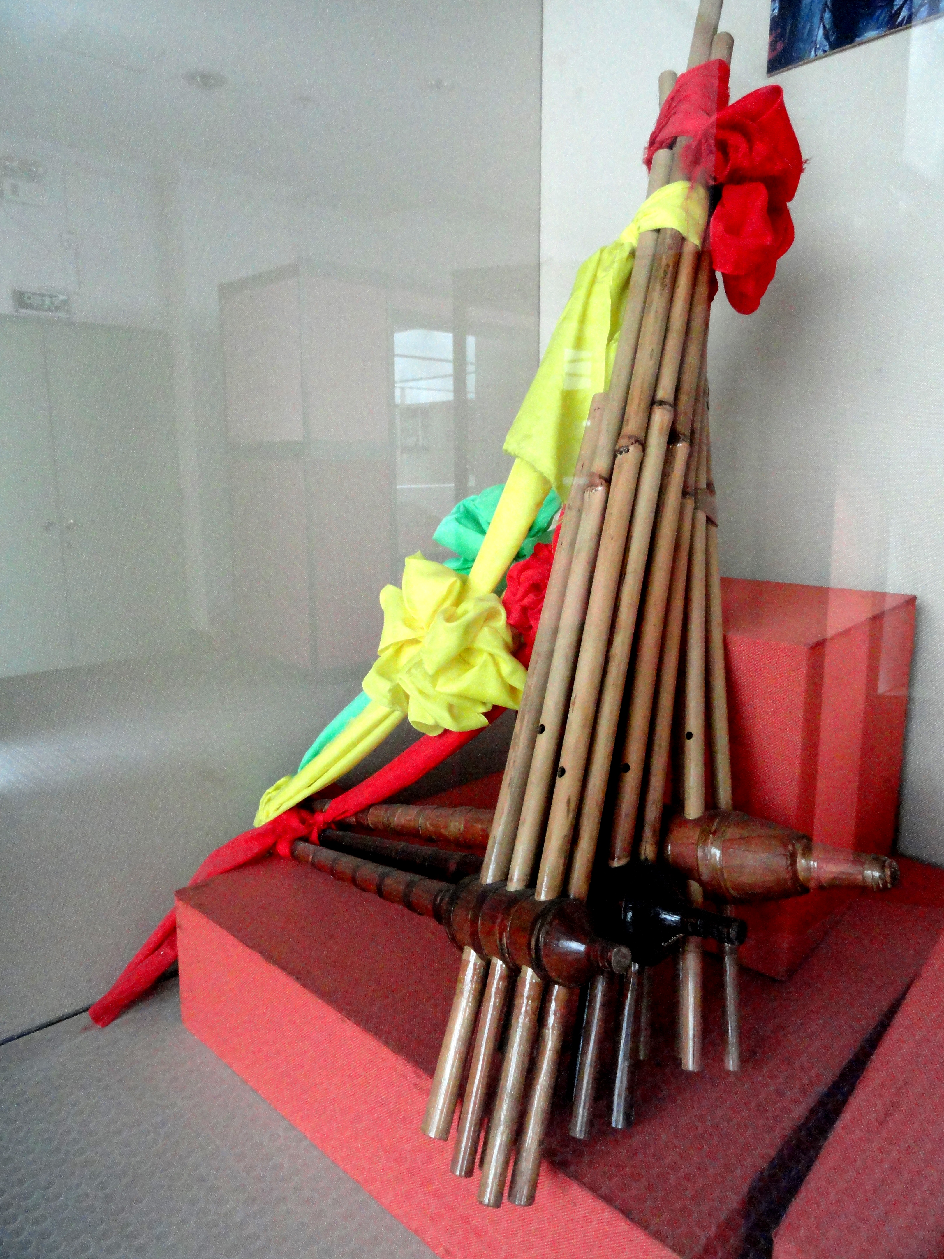 Miao bamboo flutes. Musical instruments in the Yunnan Nationalities Museum, Kunming, Yunnan, China.